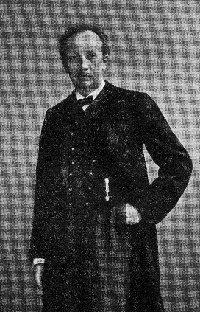 Photo of Richard Strauss, published in Modern Music and Musicians, University Society, New York, 1918